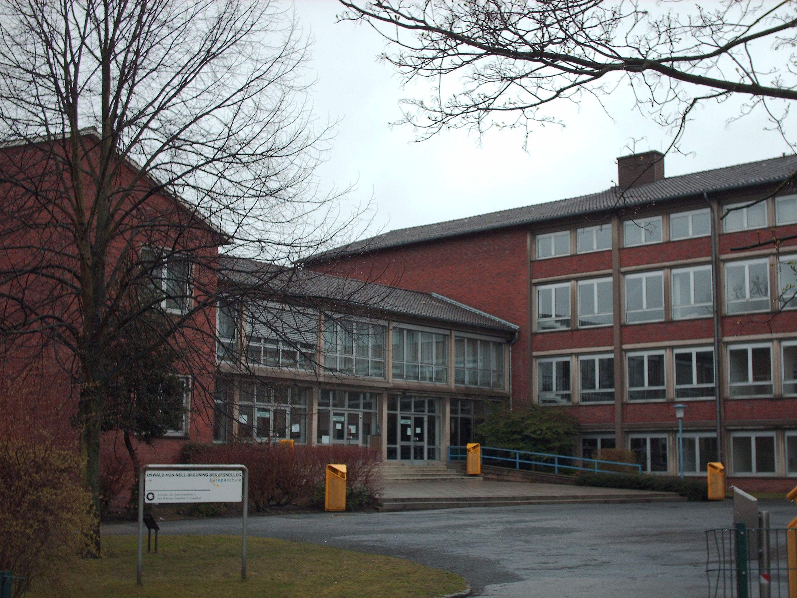 Oswald-von-Nell-Breuning-Berufskolleg, Coesfeld, Germany check usage